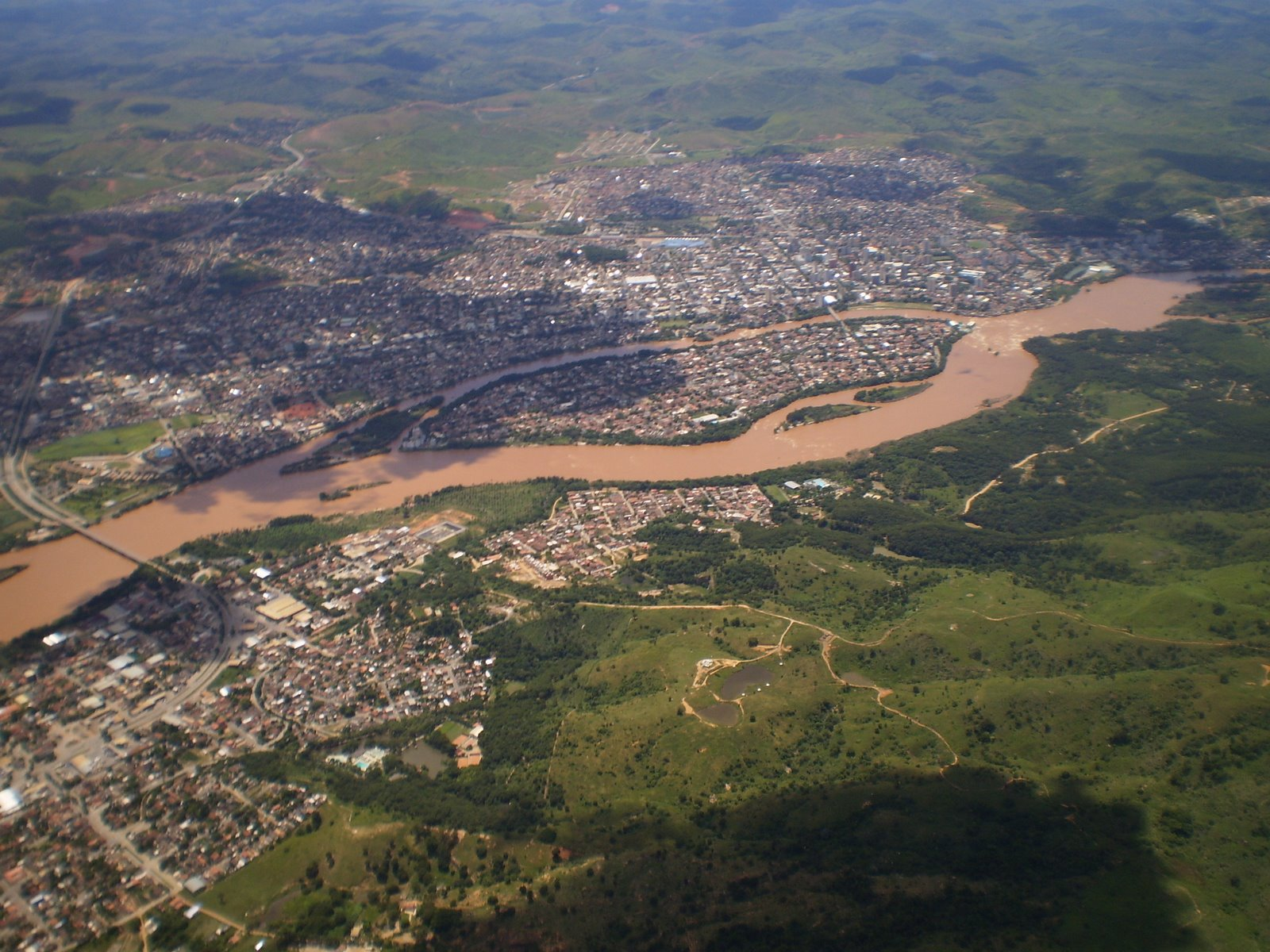 Doce River and parcial view of Governador Valadares City, Minas Gerais, Brazil.